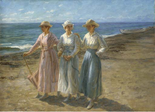 On Skagen's Beach, oil painting by Danish artist Johannes Wilhjelm.